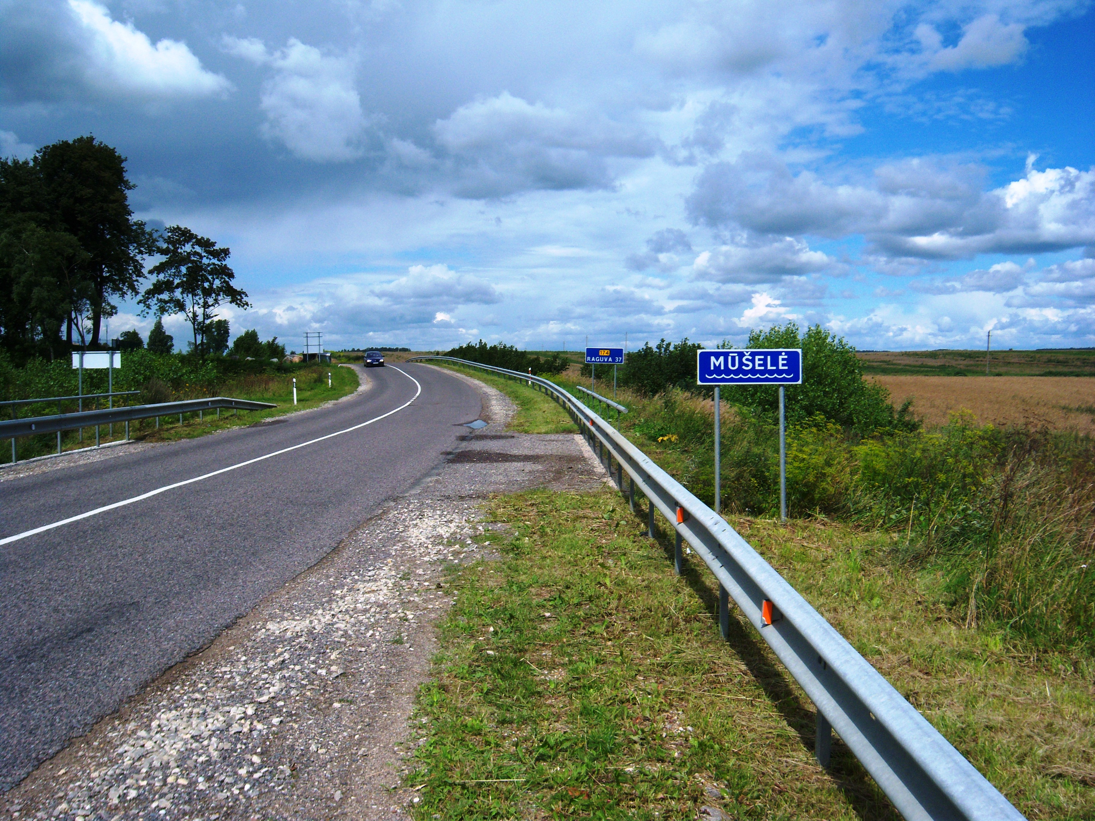 Mūšelė stream by road 174, Ukmergė district, Lithuania